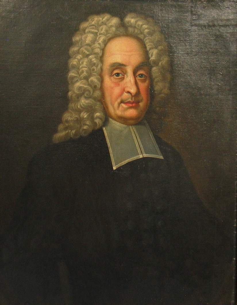 Portrait of Johann Pagenstecher (1628-1719), Second Mayor of Osnabrueck 1689-1703